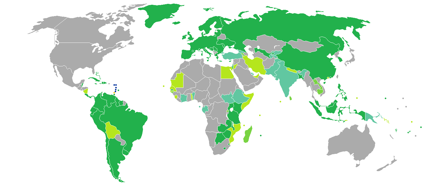 Visa requirements for Grenadian citizens Grenada Visa free access Visa on arrival eVisa Visa available both on arrival or online Visa required